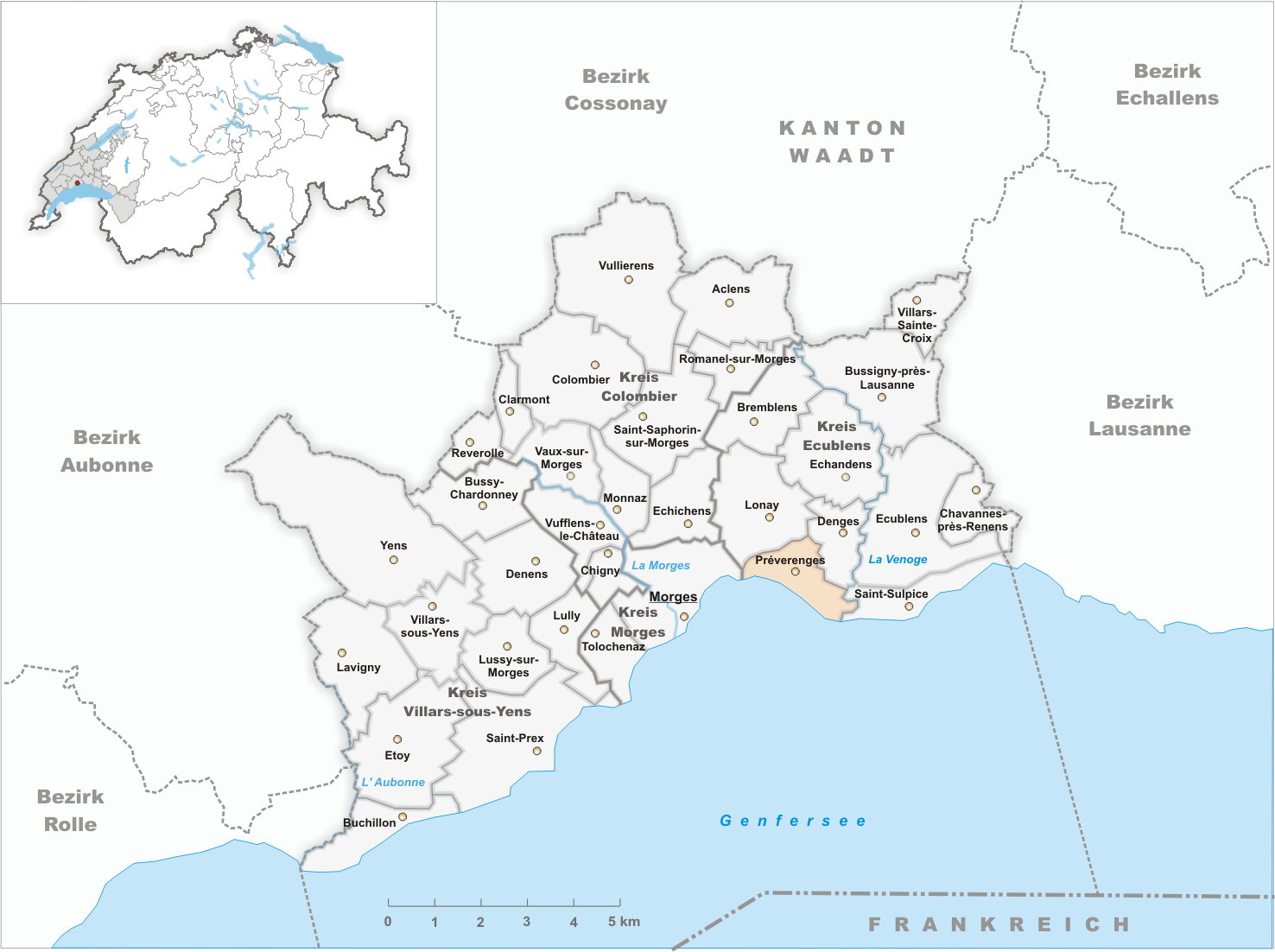 Municipality Préverenges